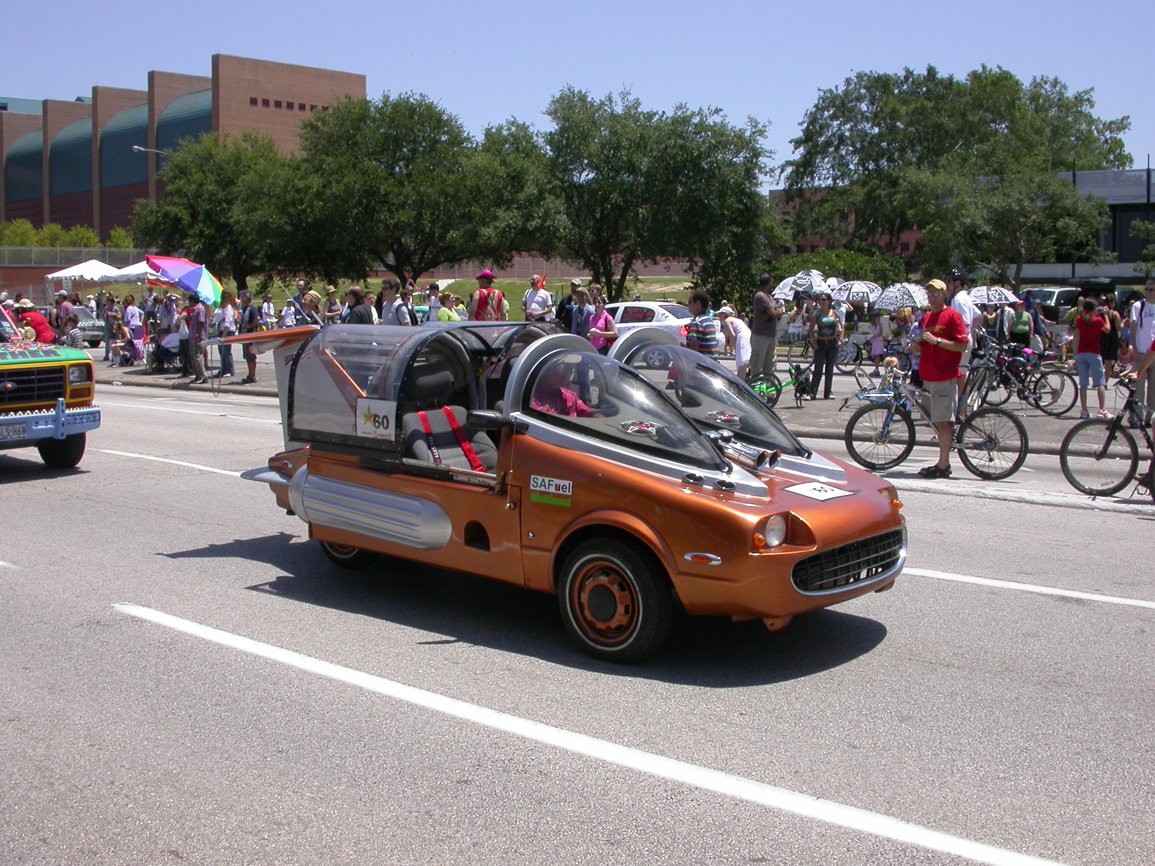 Art Car Parade in Houston, Texas.Art Car Parade